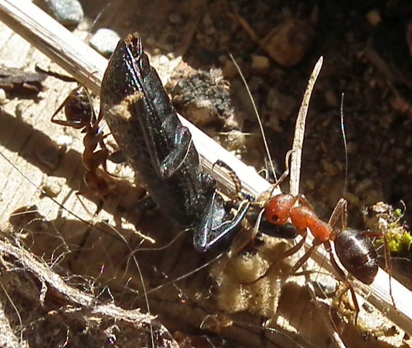 Thatcher Ant Formica obscuripes workers flipping beetle over, Shuswap, British Columbia, Canada